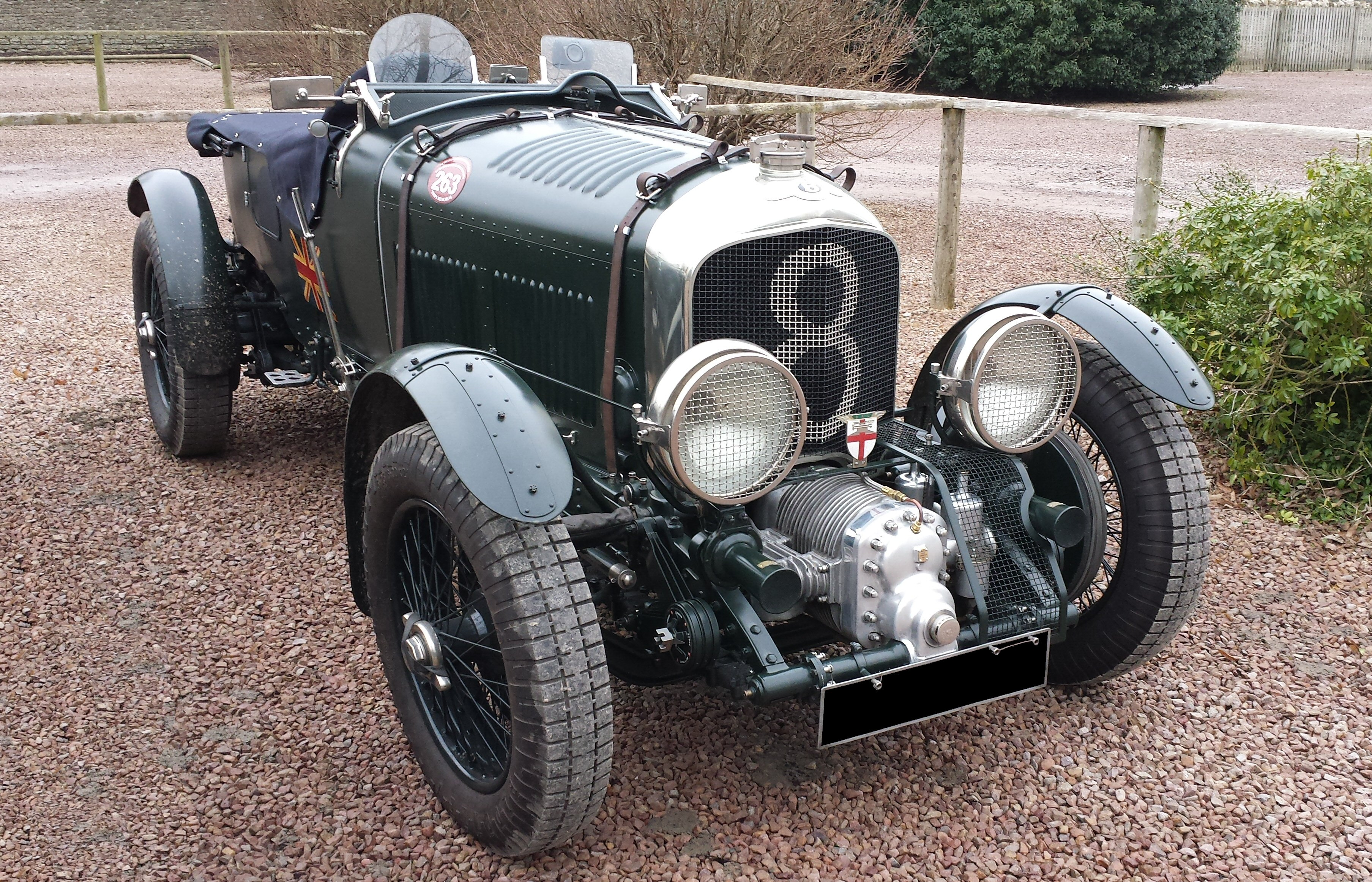 Bentley 4½ Litre supercharged, 1929 in the car park at Eastnor Castle